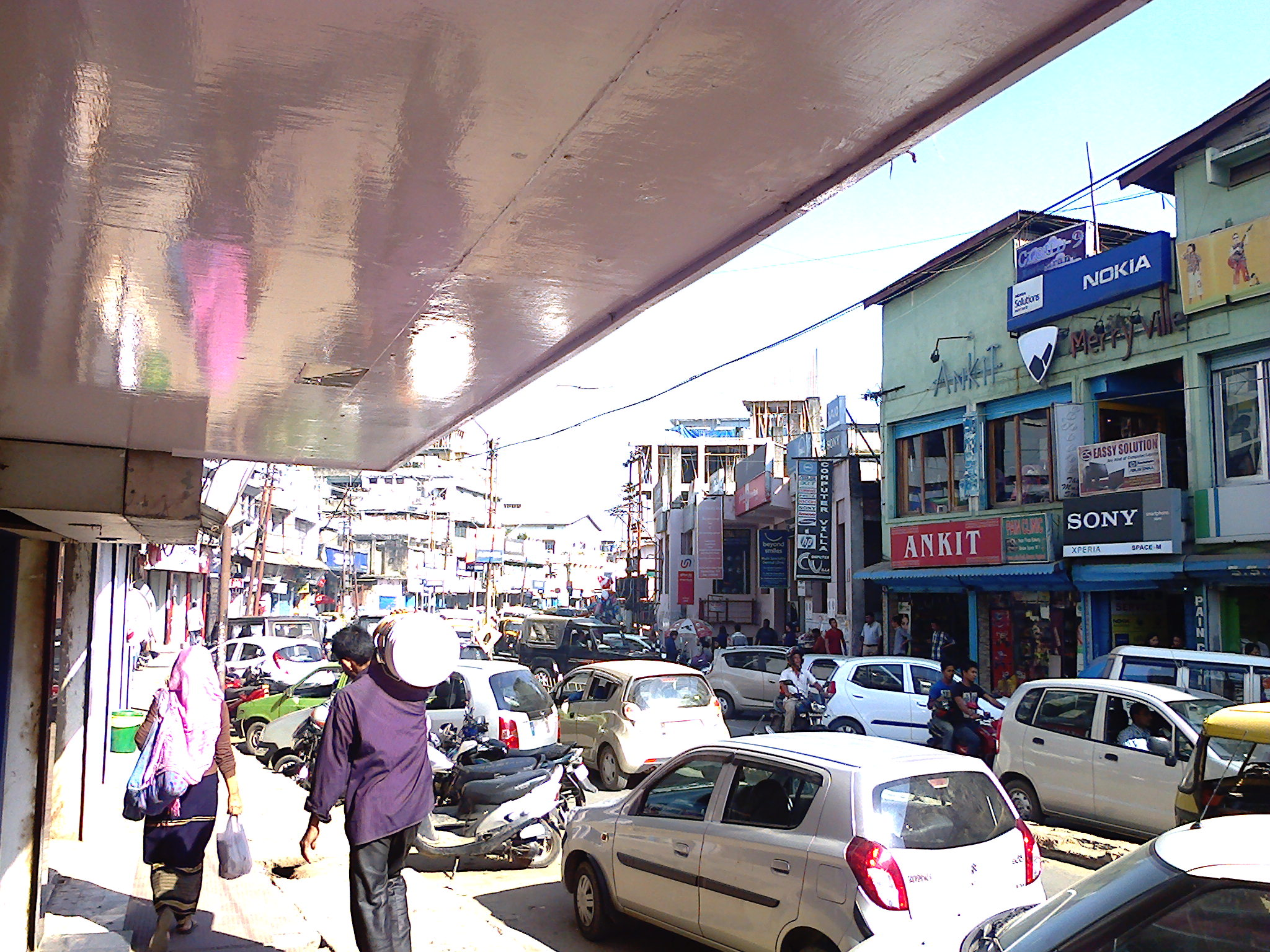 Dimapur Town